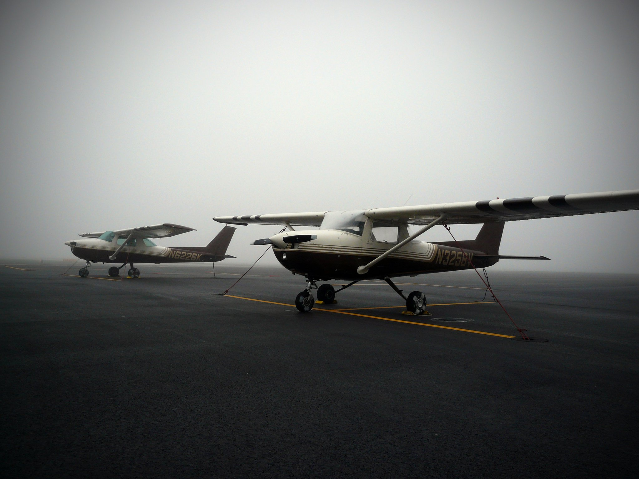 Two Cessna 150 aircraft, N6226K and N3258V, are the two aircraft that the Western Michigan University SkyBroncos Precision Flight Team fly.